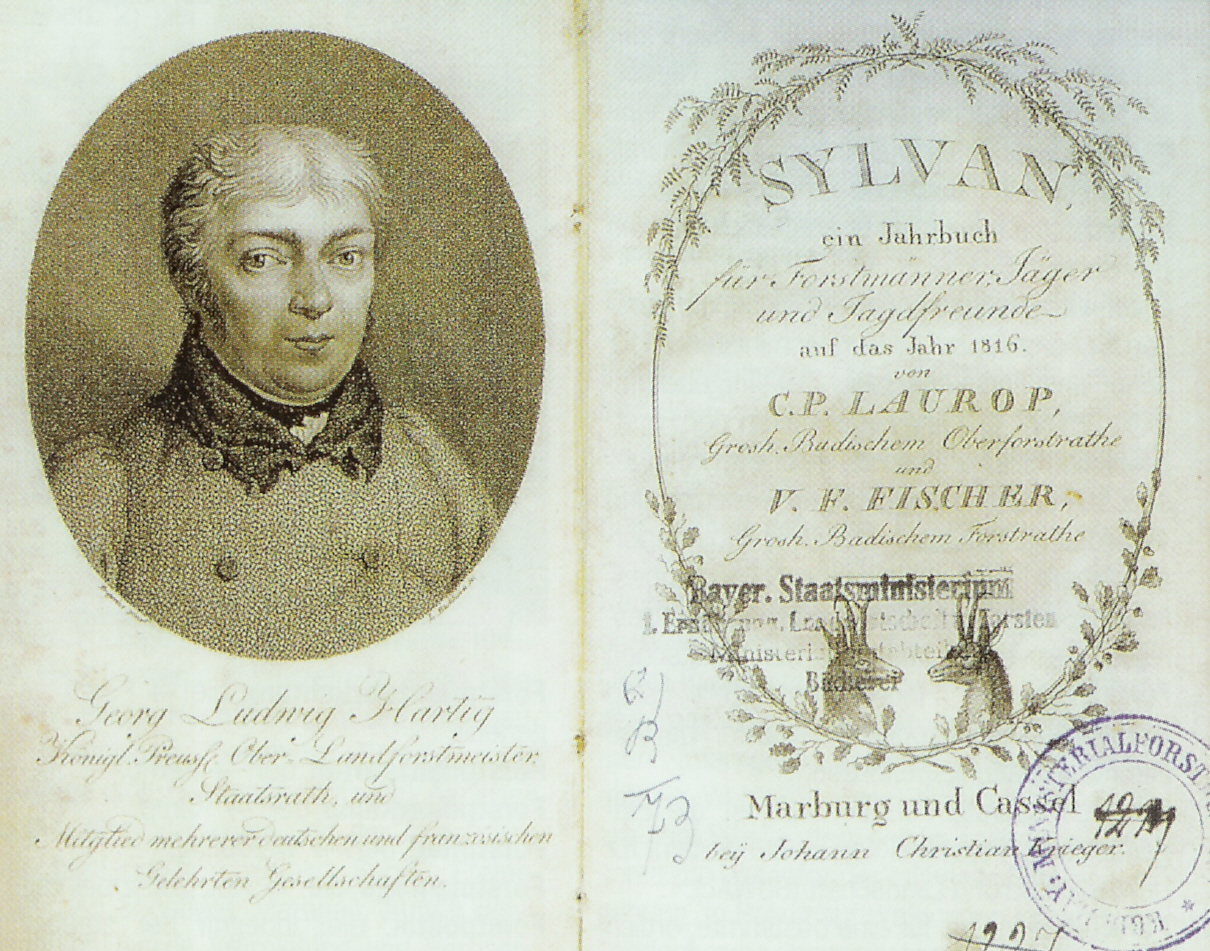 Georg Ludwig Hartig (1764-1837), German forestry scientist